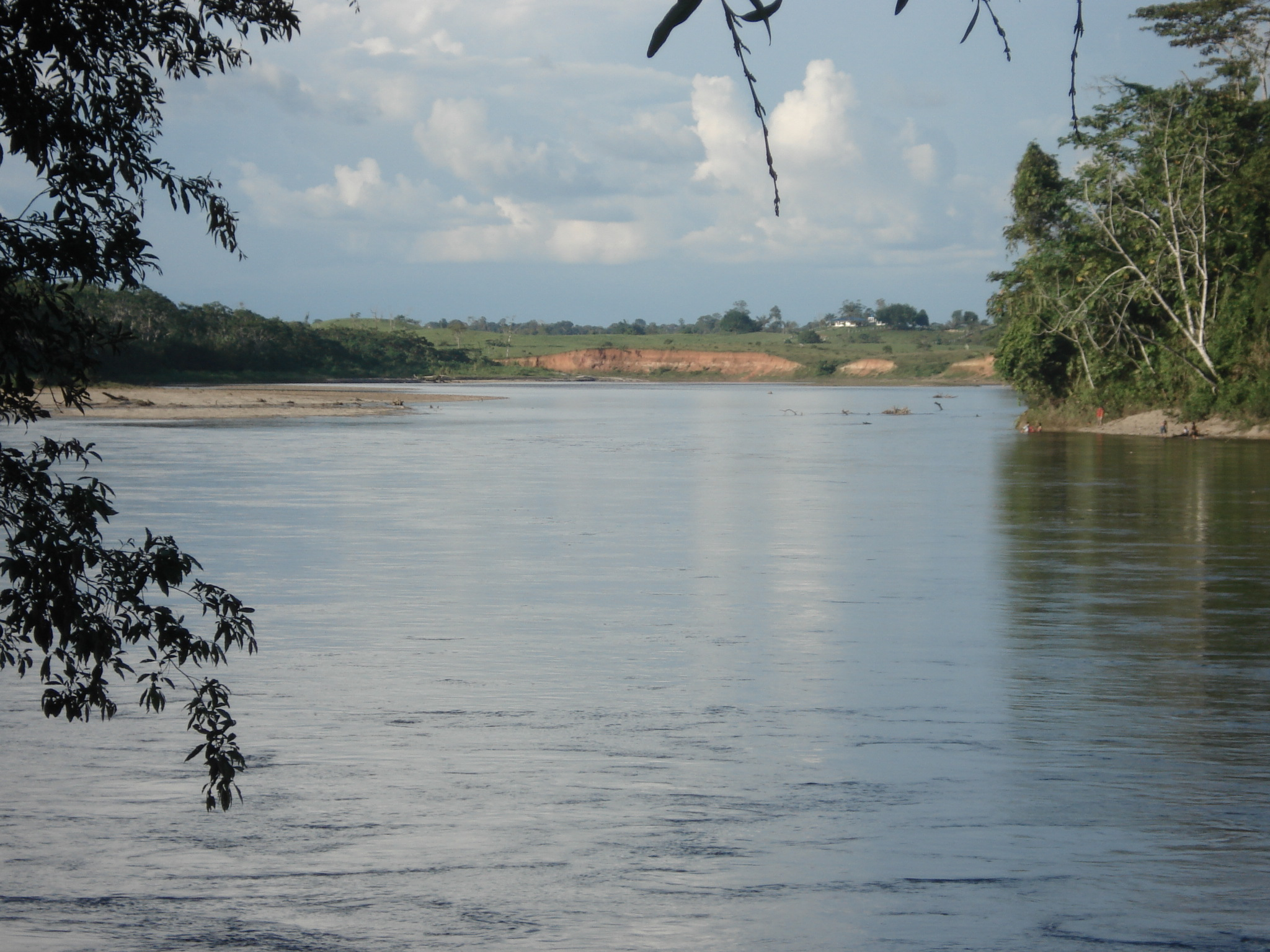 Rio Putumayo, at a point known as "Ferri" in the village of Santa Ana, municipality of Puerto Asis, Putumayo - Colombia